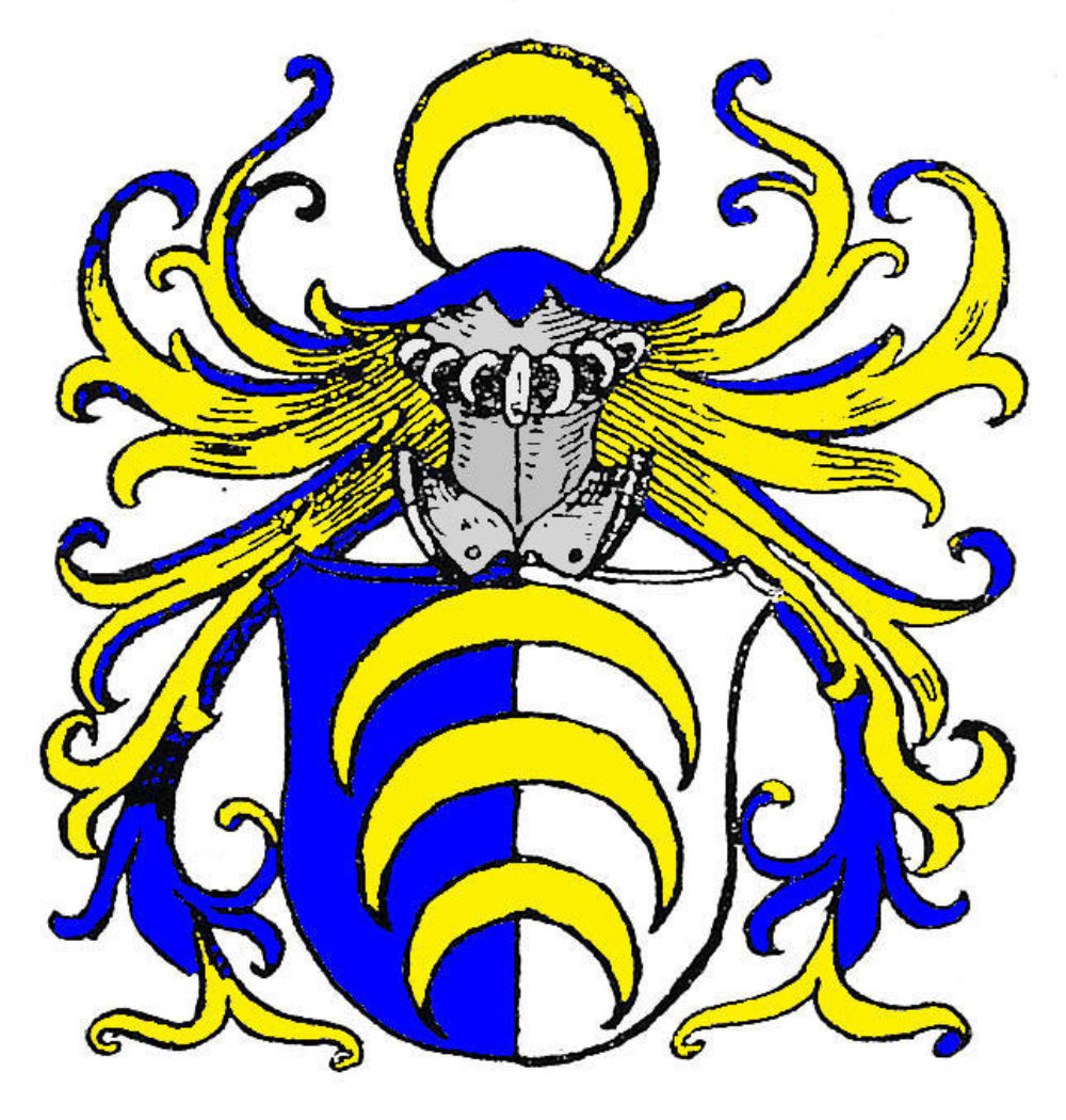 Coat of arms of Stockhausen